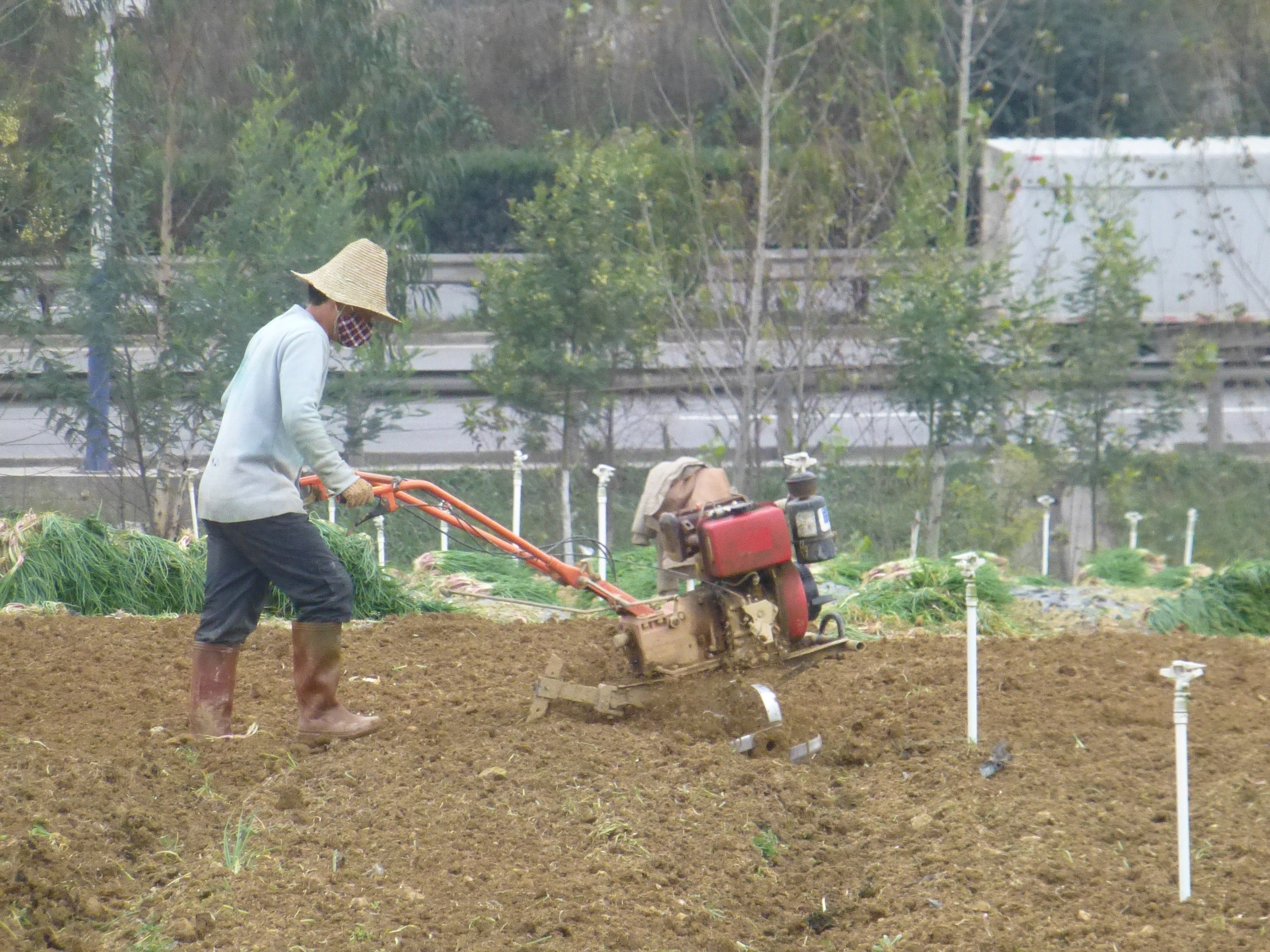 A farmer ploughing soil with a small motor plough, on a farms west of China National Hwy 213 in the northern part of Hongta District, Yuxi